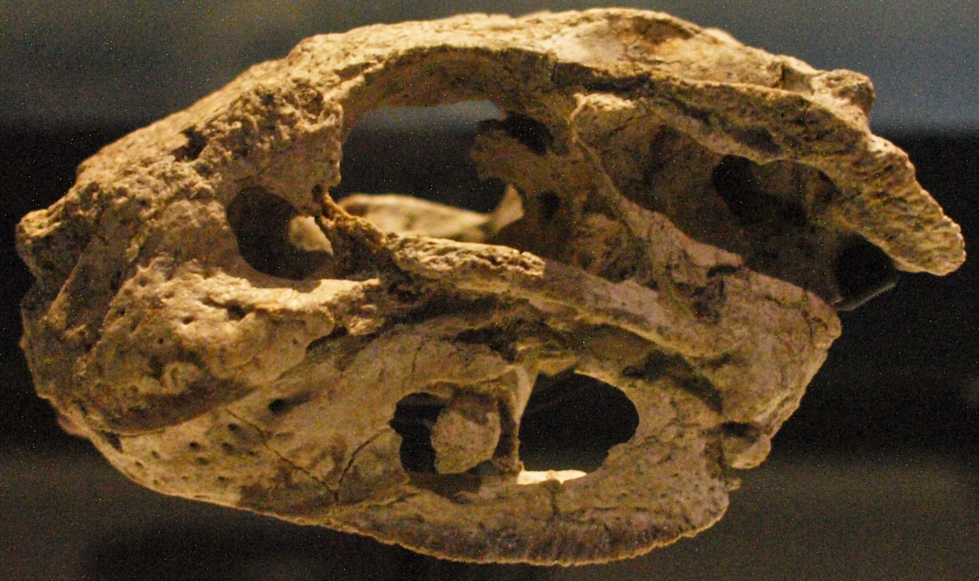 Simosuchus clarki Skull on Display at the Royal Ontario Museum (FMNH PR 2597)